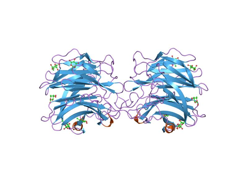 Cartoon representation of the molecular structure of protein registered with 1ofz code.